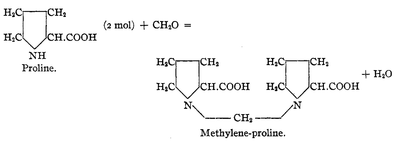 Formol titration equation for proline